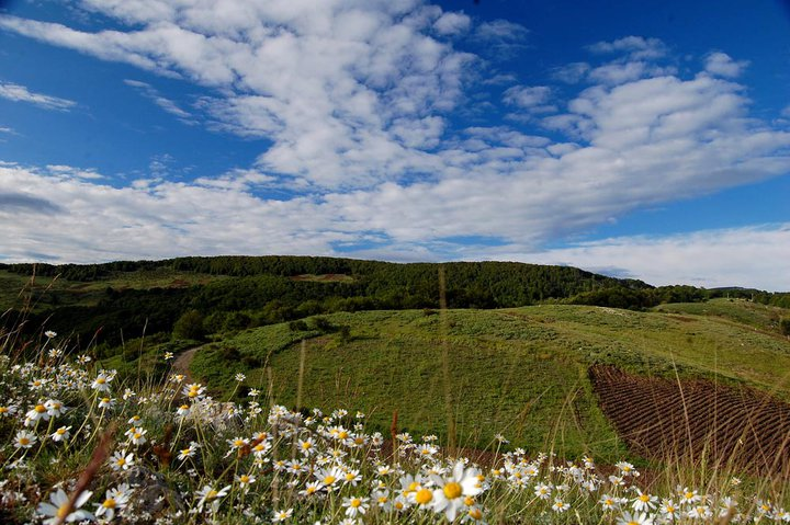 Shilest Chukar - Plackovica